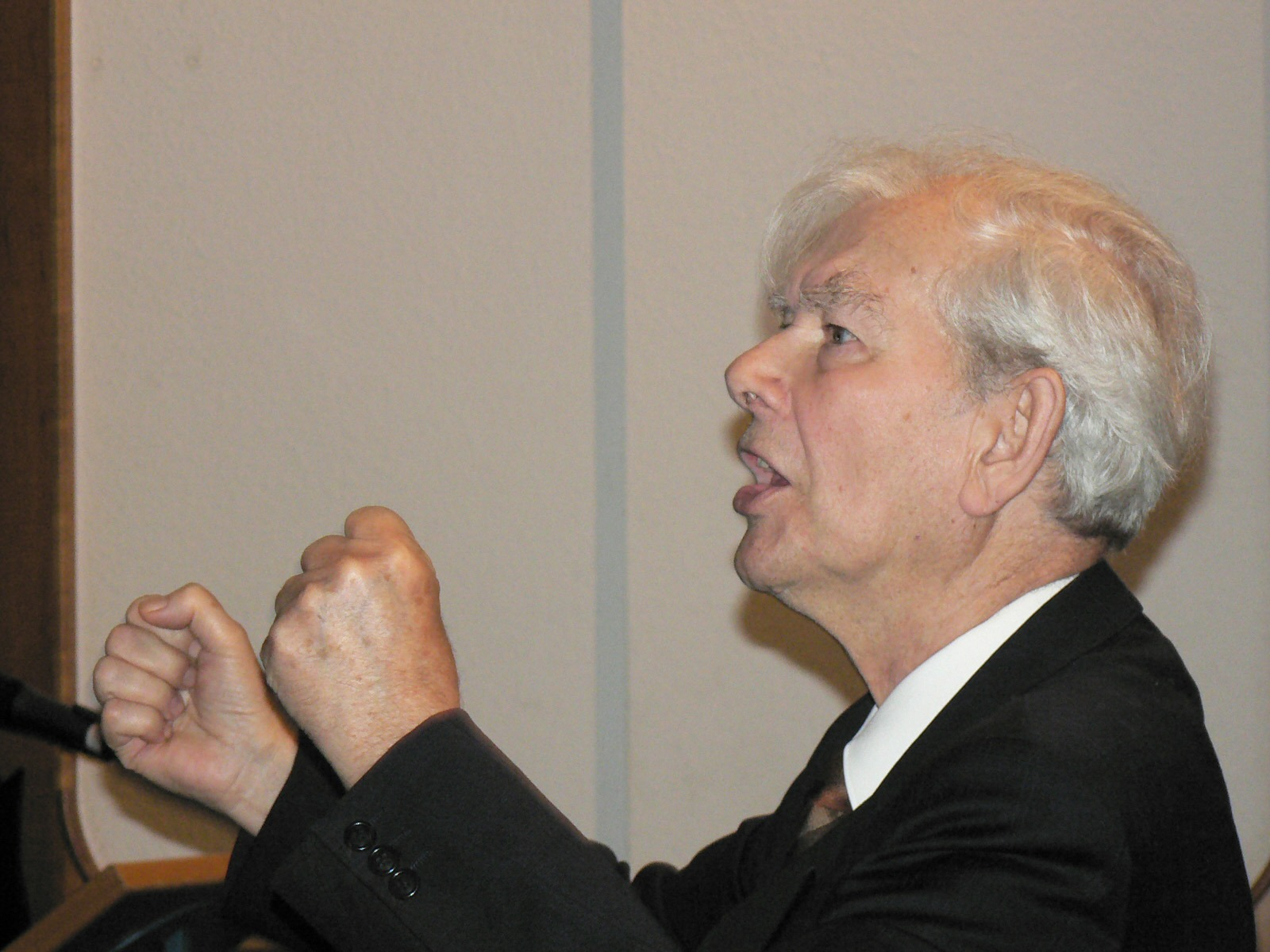 Gerenday Endre 2006-ban Solymáron